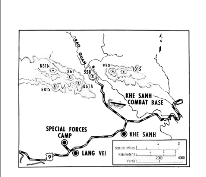 A map of the Khe Sanh combat base.